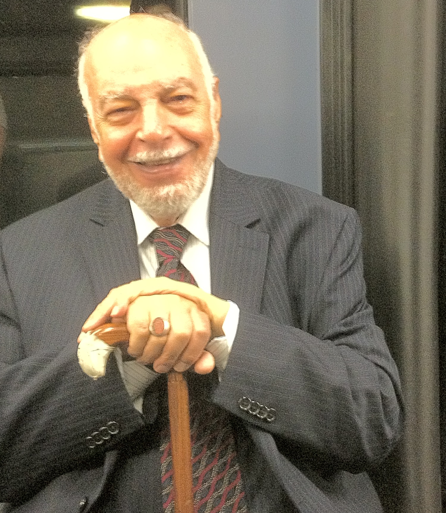 Dr Ahmad Mahdavi Damghani in Paris summer 2013